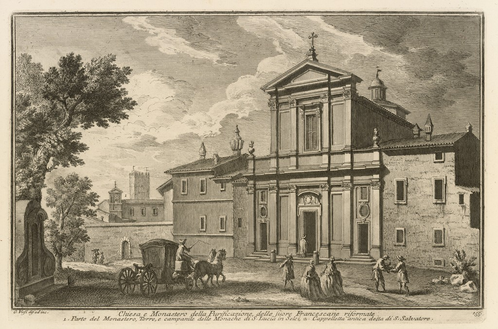 1) Monastero di S. Lucia in Selci; 2) Cappellina del SS. Salvatore.